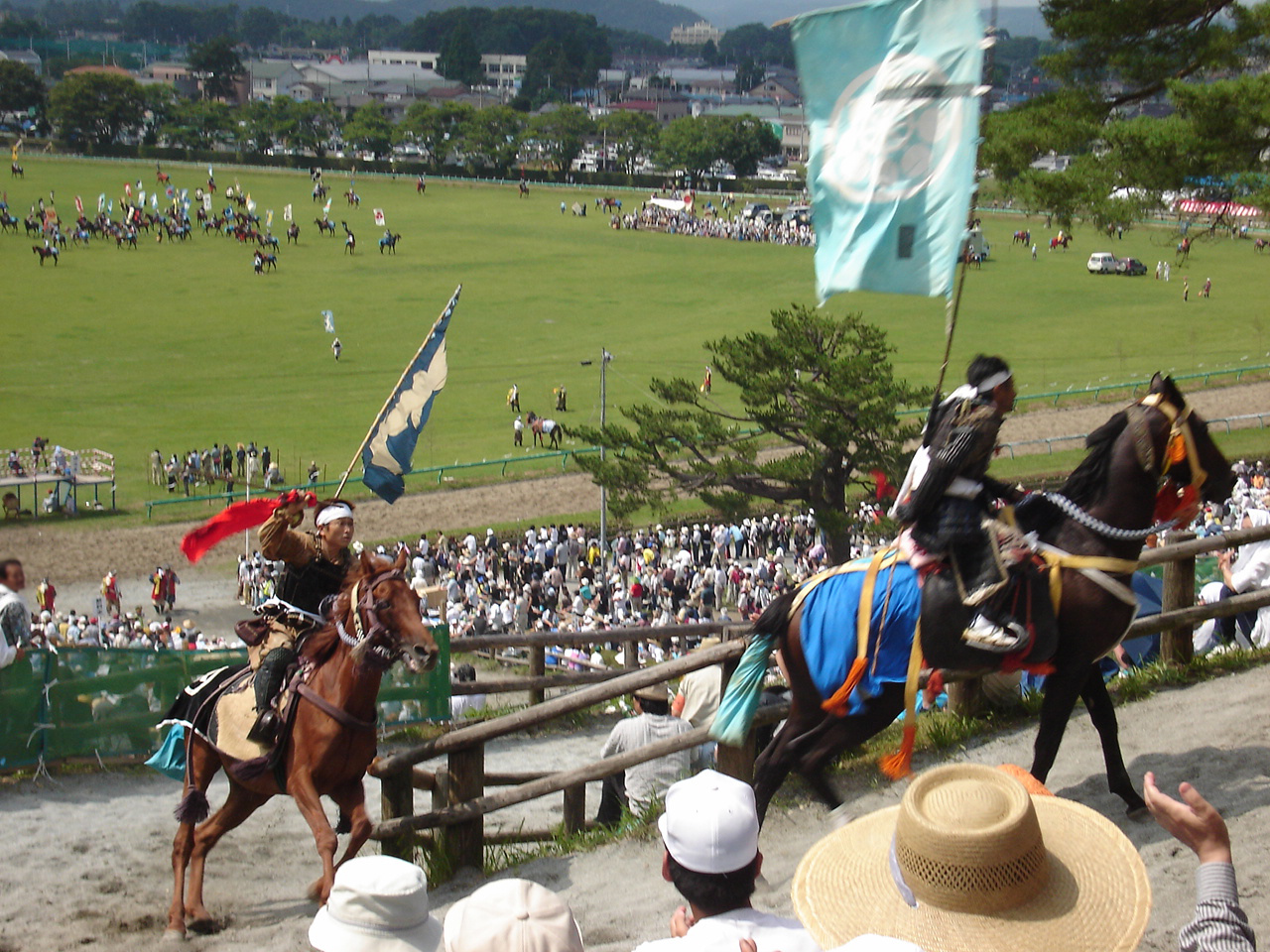 The Soma Nomaoi festival: Shinki sodatsusen (sacred flag competition)